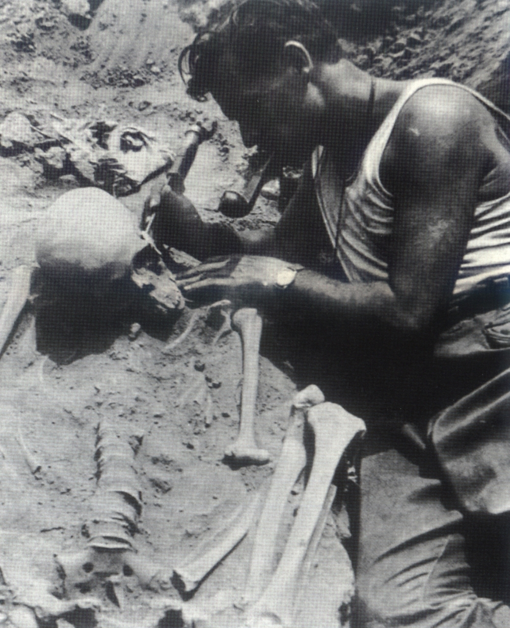 Recovering human remains